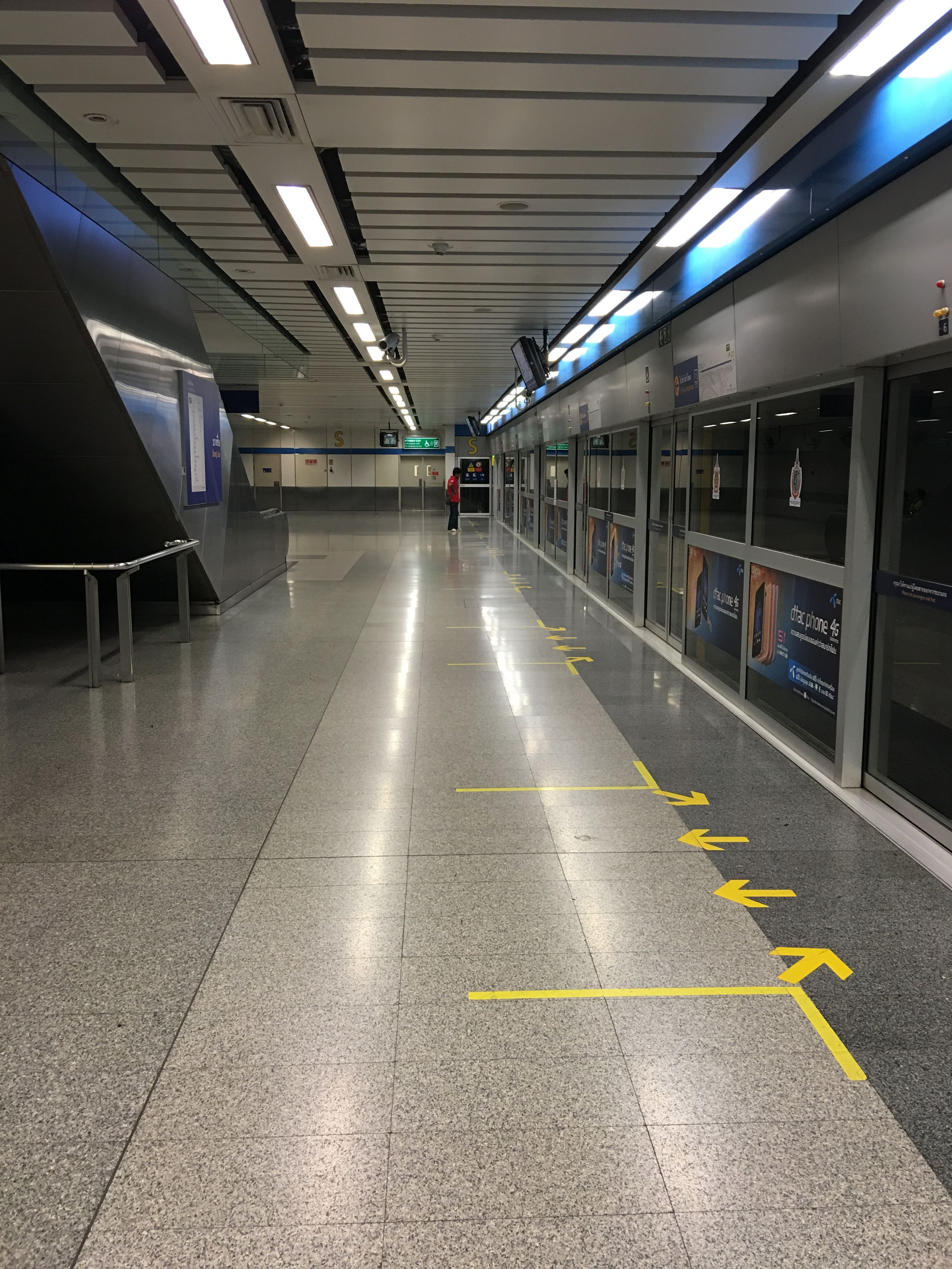 Bang Sue MRT Station